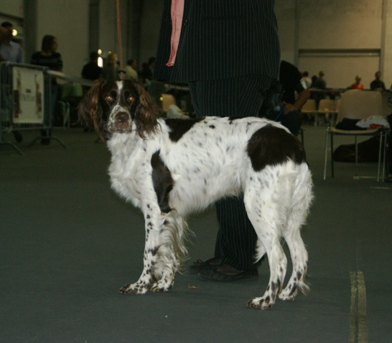 A French Spaniel female in France